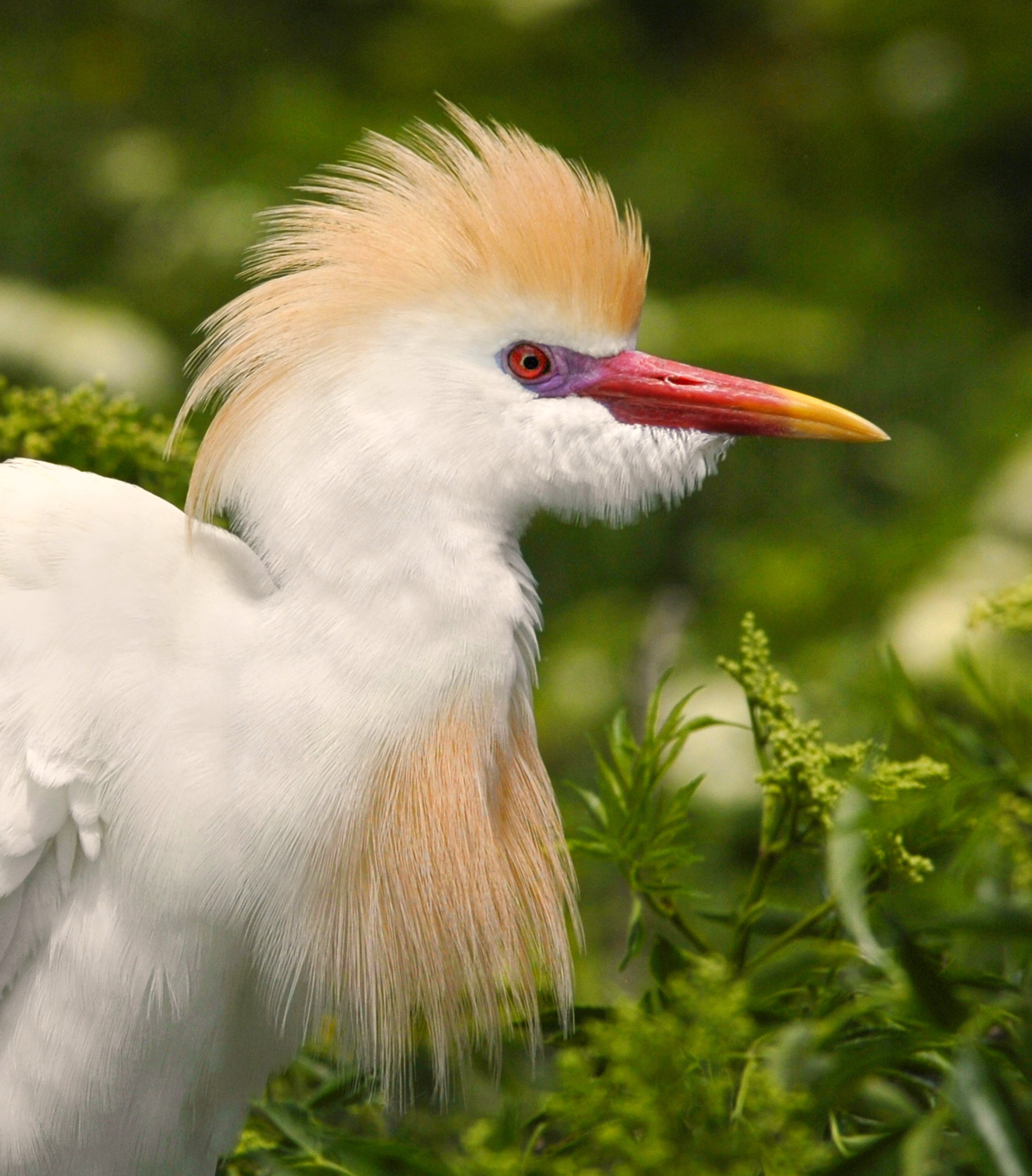 In the Mood for Love Cattle Egret (Bubulcus ibis ) in breeding plummage.